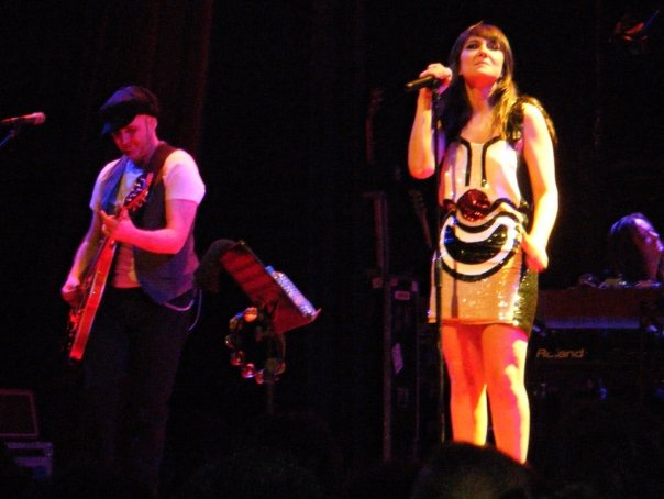 Spanish rock band Amaral